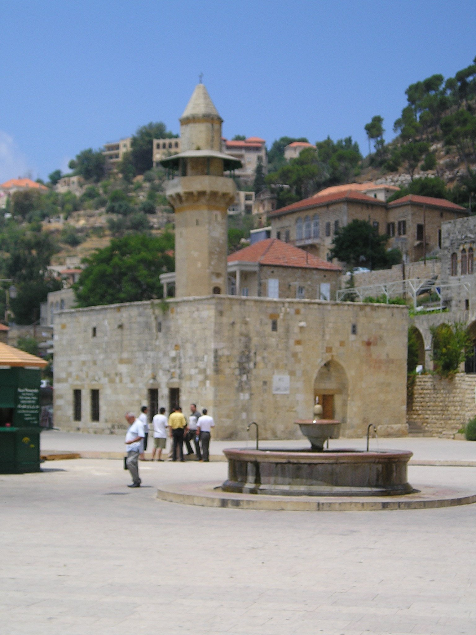 Deir al-Qamar, Lebanon - Fakhredine mosque. Until somebody uploads a sharper photo...